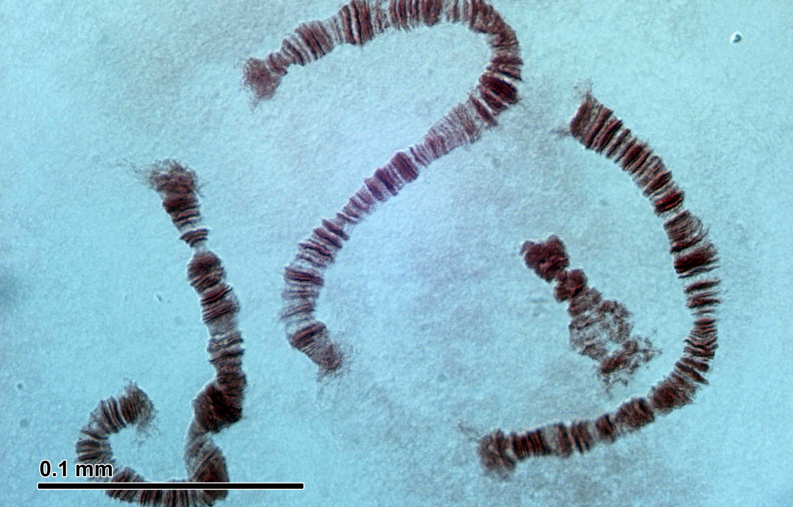 Polytene chromosomes: Salivary glands of nonbiting midges larvae (Chironomidae). Optical microscopy technique: Bright field. Magnification: 860x (for picture width 26 cm ~ A4 format).